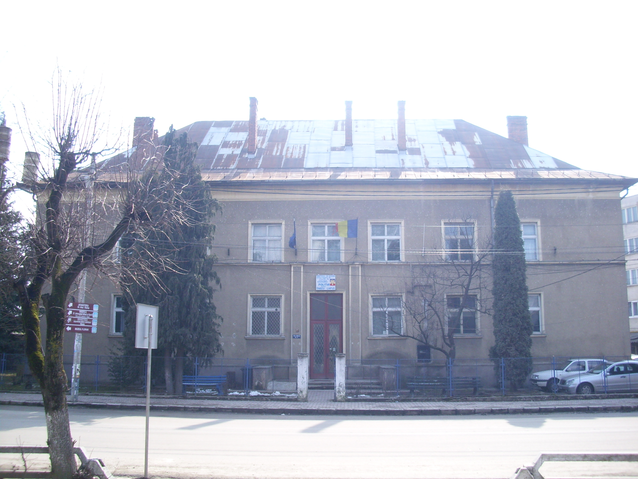 Police Station and former Town Hall, Târgu Lăpuş, Romania (19th century)